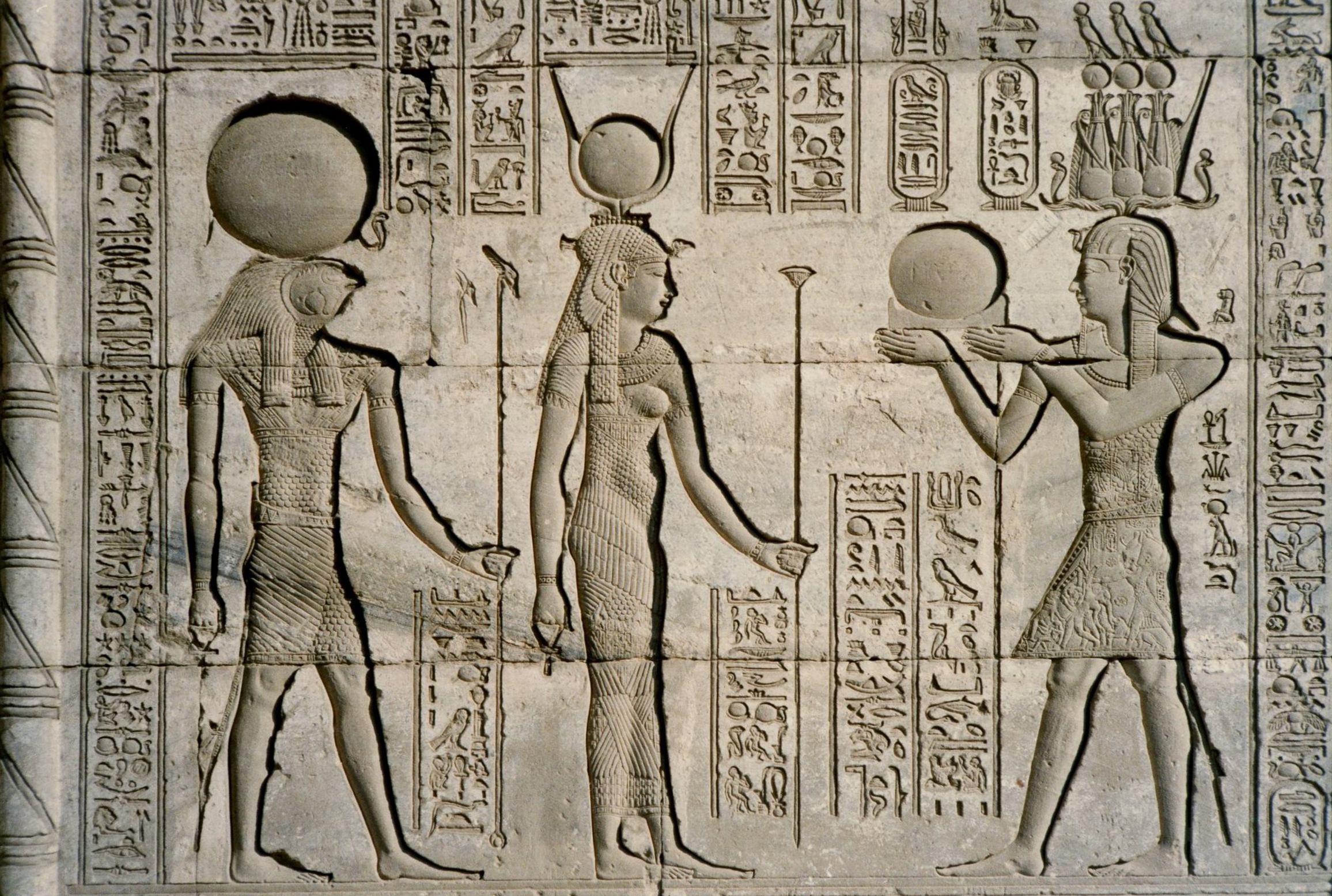 Relief at the Dendera Temple showing Traianus ,Horus and Hathor, Egypt